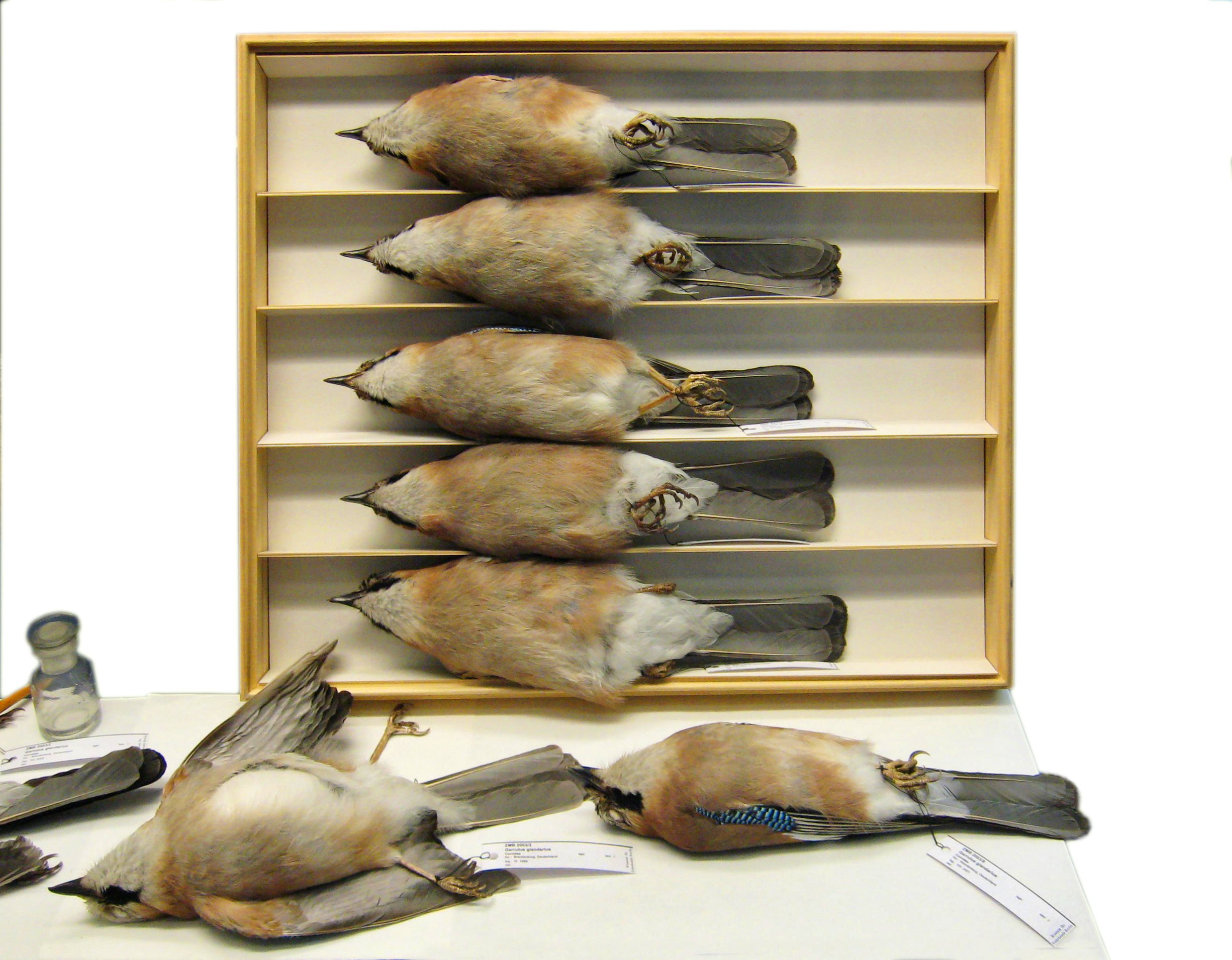 Study skins of Eurasian Jays at the Berlin Naturkundemuseum